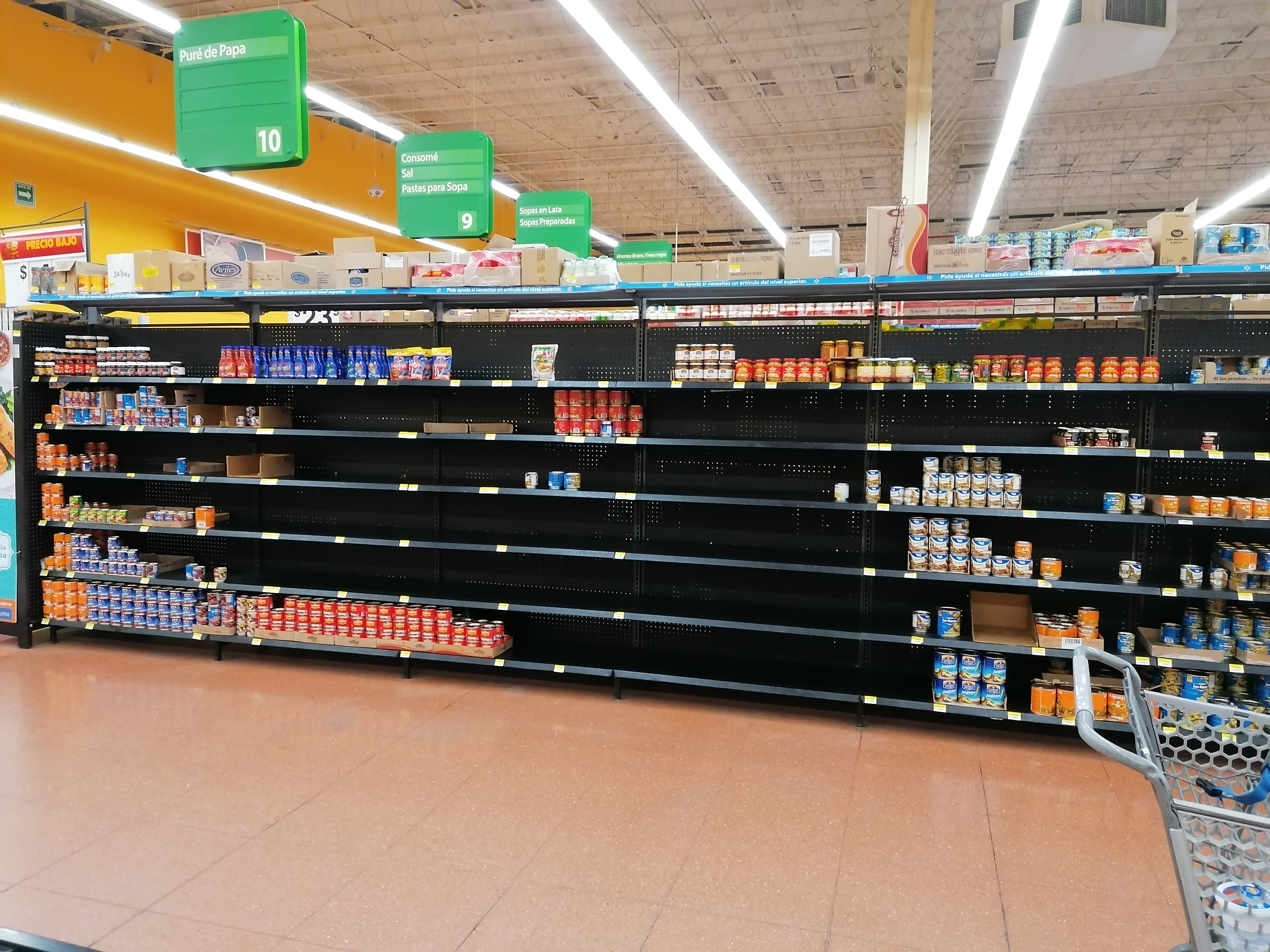 Shortage of cans in a Walmart supermarket in the city of San Luis Potosí, caused by panic purchases made the week after the arrival of the first 10 cases of covid-19 confirmed in the state of San Luis Potosí, Mexico.